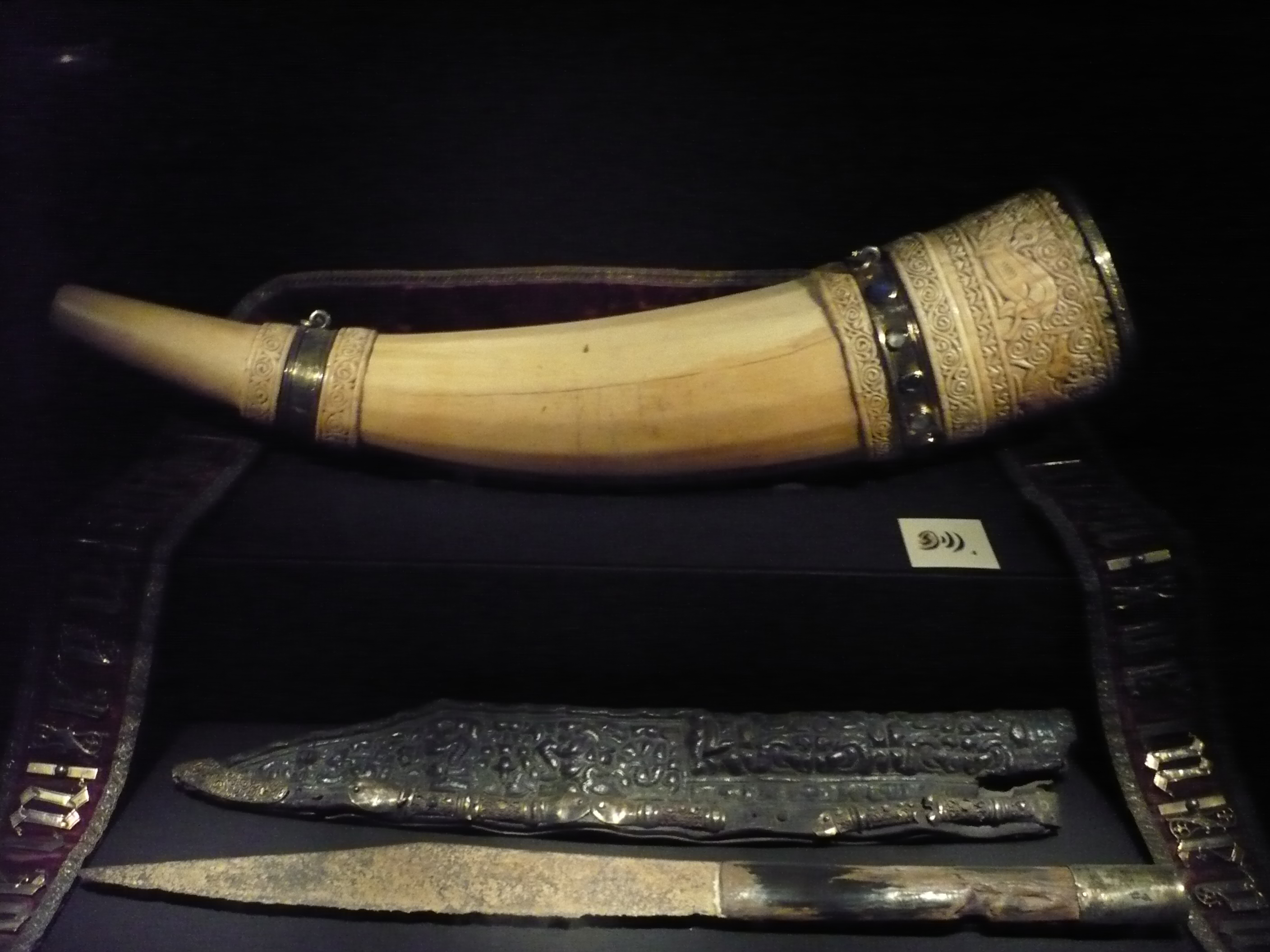 Olifant (instrument) from the Aachen Cathedral's Schatzkammer, 11th century.